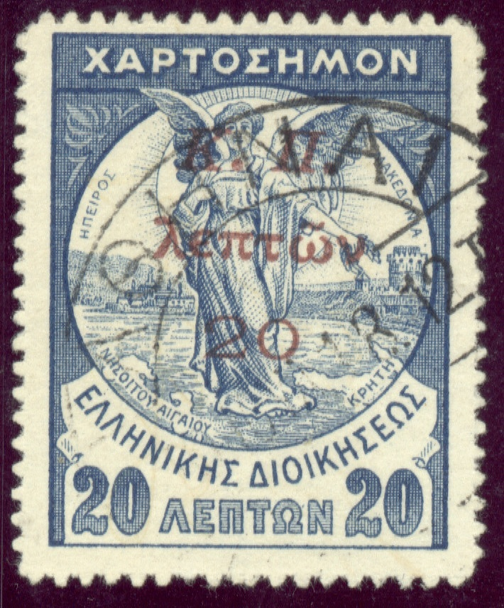 Greece: Postage and revenue stamp for additional social/charity tax (1917), overpirnt on 1913 occupation revenue stamp (20 lepta on 20 lepta). The specific stamp on this image was used postally in 1918, after the KP stamps were officially withdrawn.